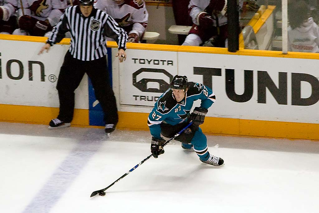 Jeremy Roenick, Phoenix Coyotes vs. San Jose Sharks.